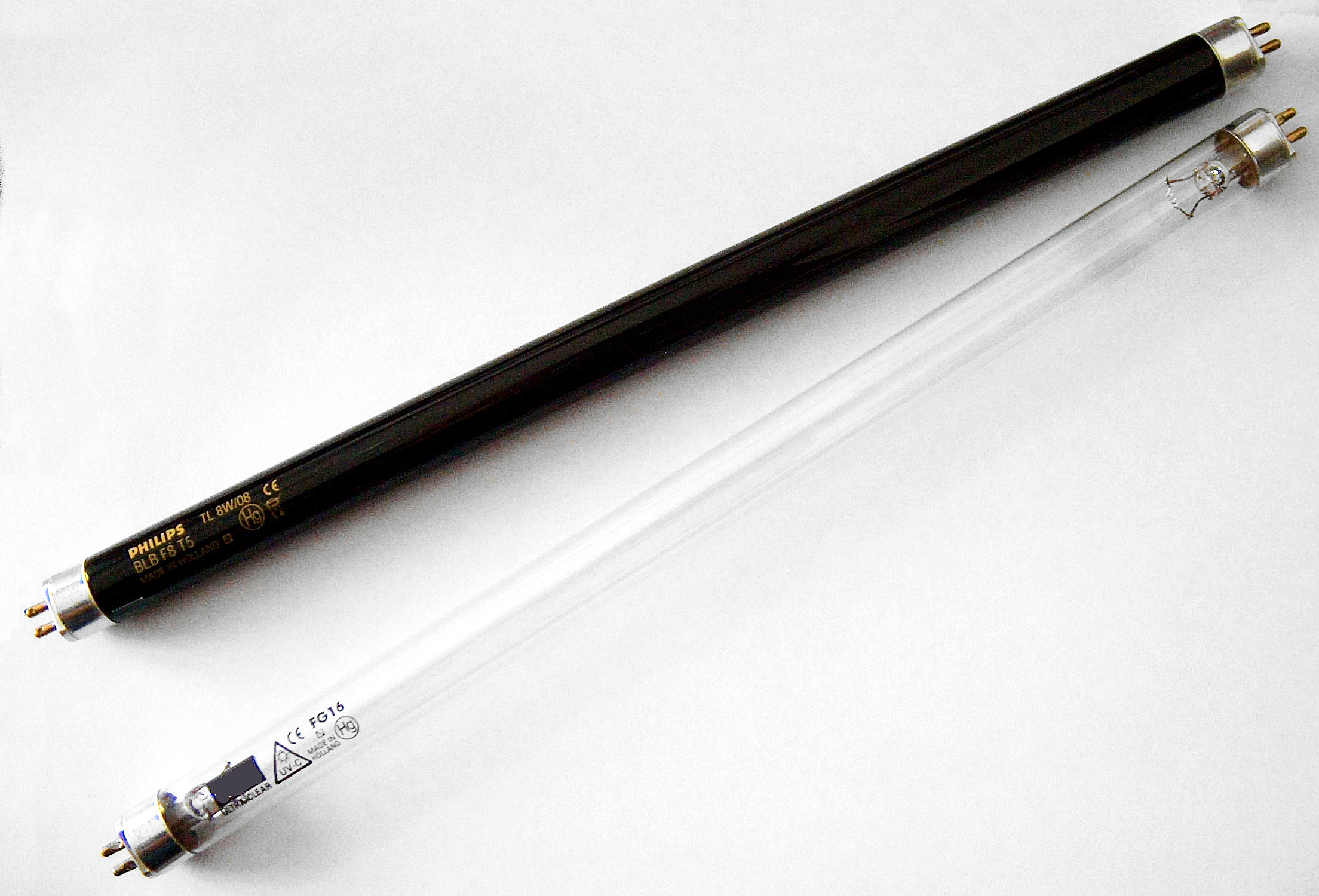 Two fluorescent lamps which emit ultraviolet light. (Top) A "black light" tube which emits long wave UV-A light, and very little visible light. The inside of the tube has a fluorescent coating (europium-doped strontium borate) which converts the short wave UV from the mercury vapor inside to UV-A light at 350 - 370 nm. The tube has a dark blue optical filter coating which filters out most visible light. Black lights are used for observing fluorescence, the dim colored glow which many substances emit when exposed to UV light. (Bottom) A tube which emits short wave UV-C radiation, used for germicidal lamps. It contains mercury vapor which radiates UV at 253 nm. The envelope is made of quartz, which is transparent to UV-C.